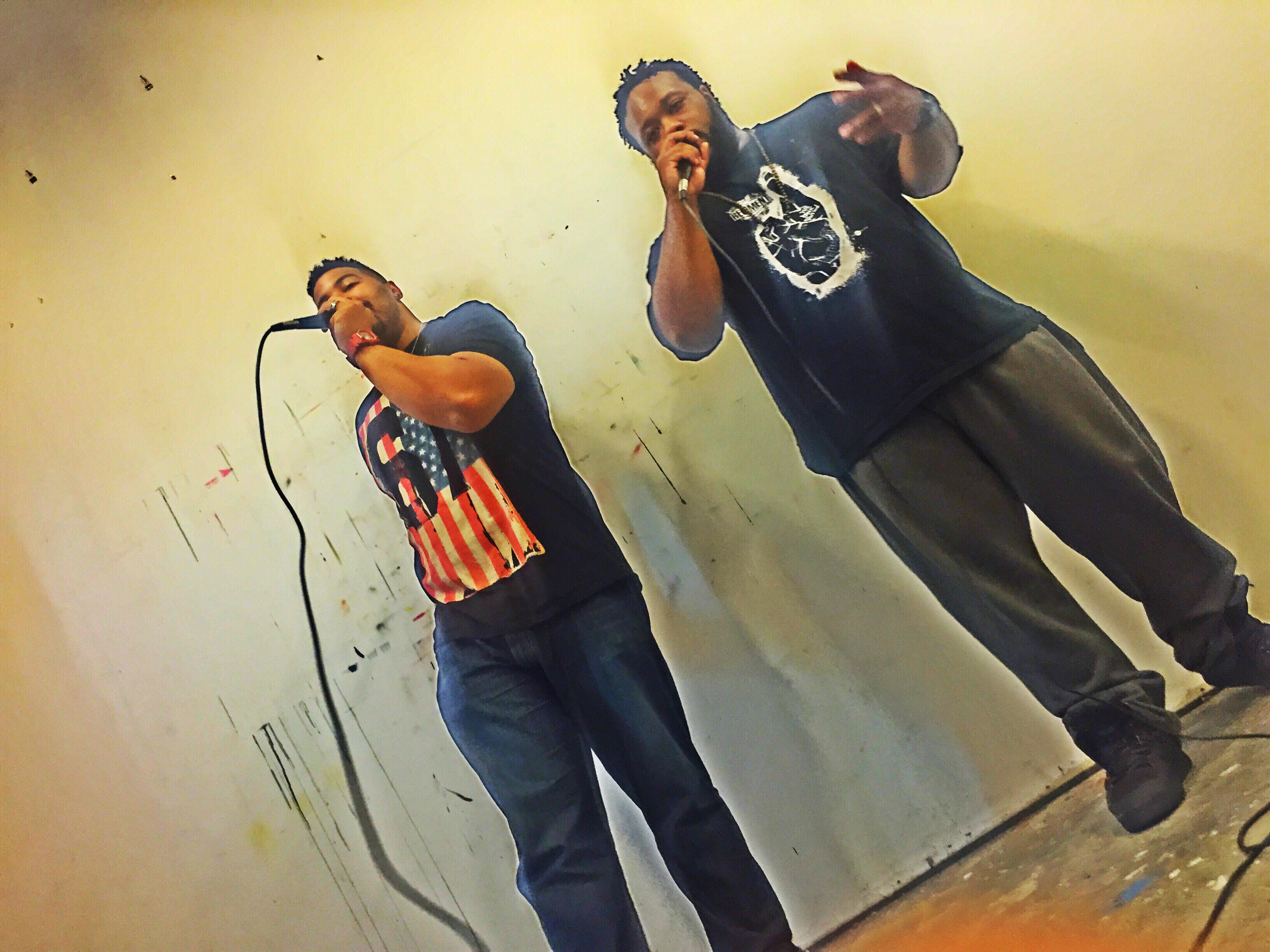 The Regiment